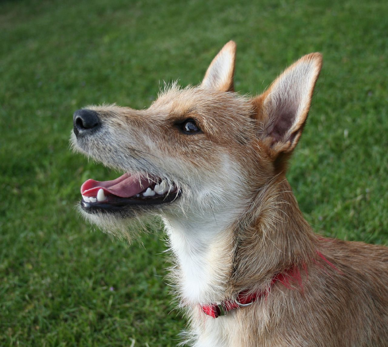 A terrier-type mixed-breed dog.Rosie